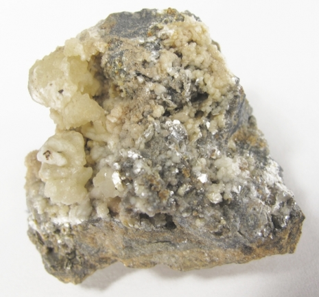 Dickite Locality: Mas d'Alary (Mas d'Alary MCO), Lodève, Hérault, Languedoc-Roussillon, France Size: 4.2 x 3.8 x 2.8 cm A rare crystallized cluster of dickite, a rare aluminum silicate, from this old uranium mine in France. Sharp crystals to 8mm form a nice display face.